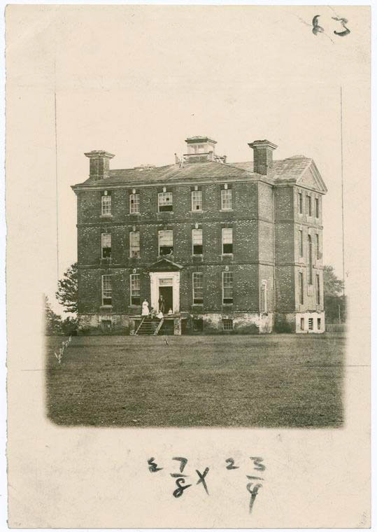 View of Rosewell Plantation, Gloucester County, Virginia, from "The Pageant of America" Collection, volume 13, by Huestis Pratt Cook. Image courtesy of the New York Public Library Digital Gallery, New York Public Library, New York, New York.